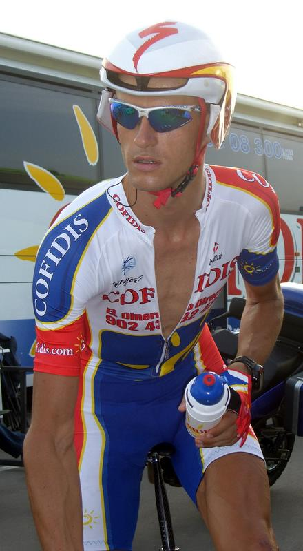 Geoffroy Lequatre Looks Like He Means Business